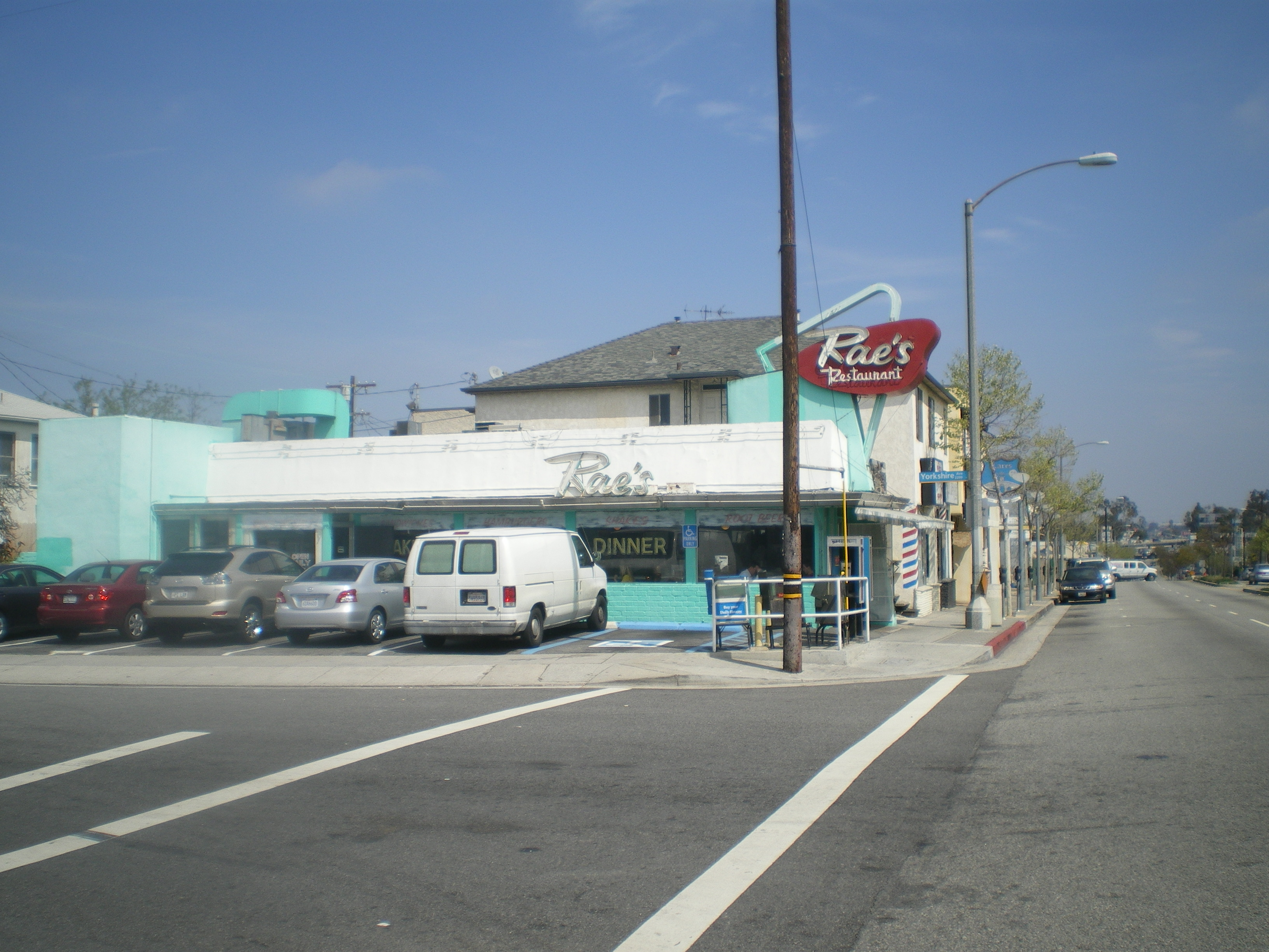 Rae's Restaurant, Pico Boulevard Santa Monica, California